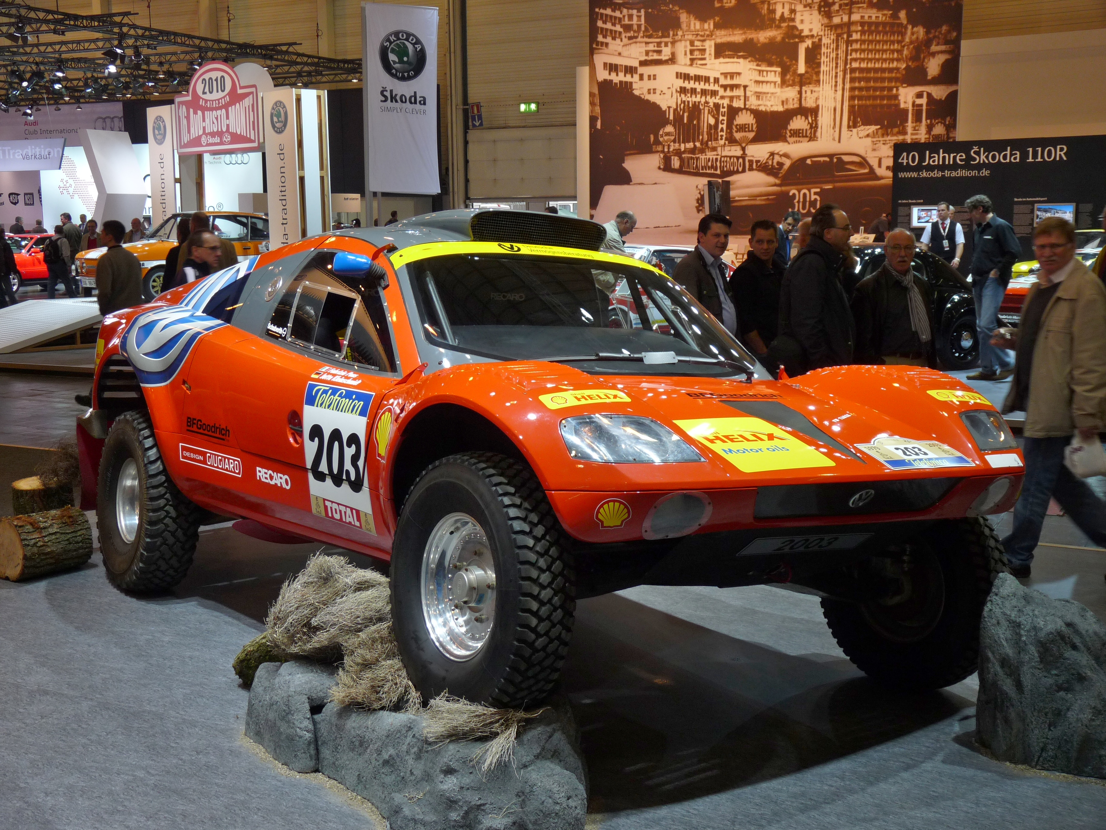 Volkswagen Tarek Buggy, as raced in Paris-Dakar (Marseille - Sharm-el-Sheik) rallye 2003, driven by Jutta Kleinschmidt